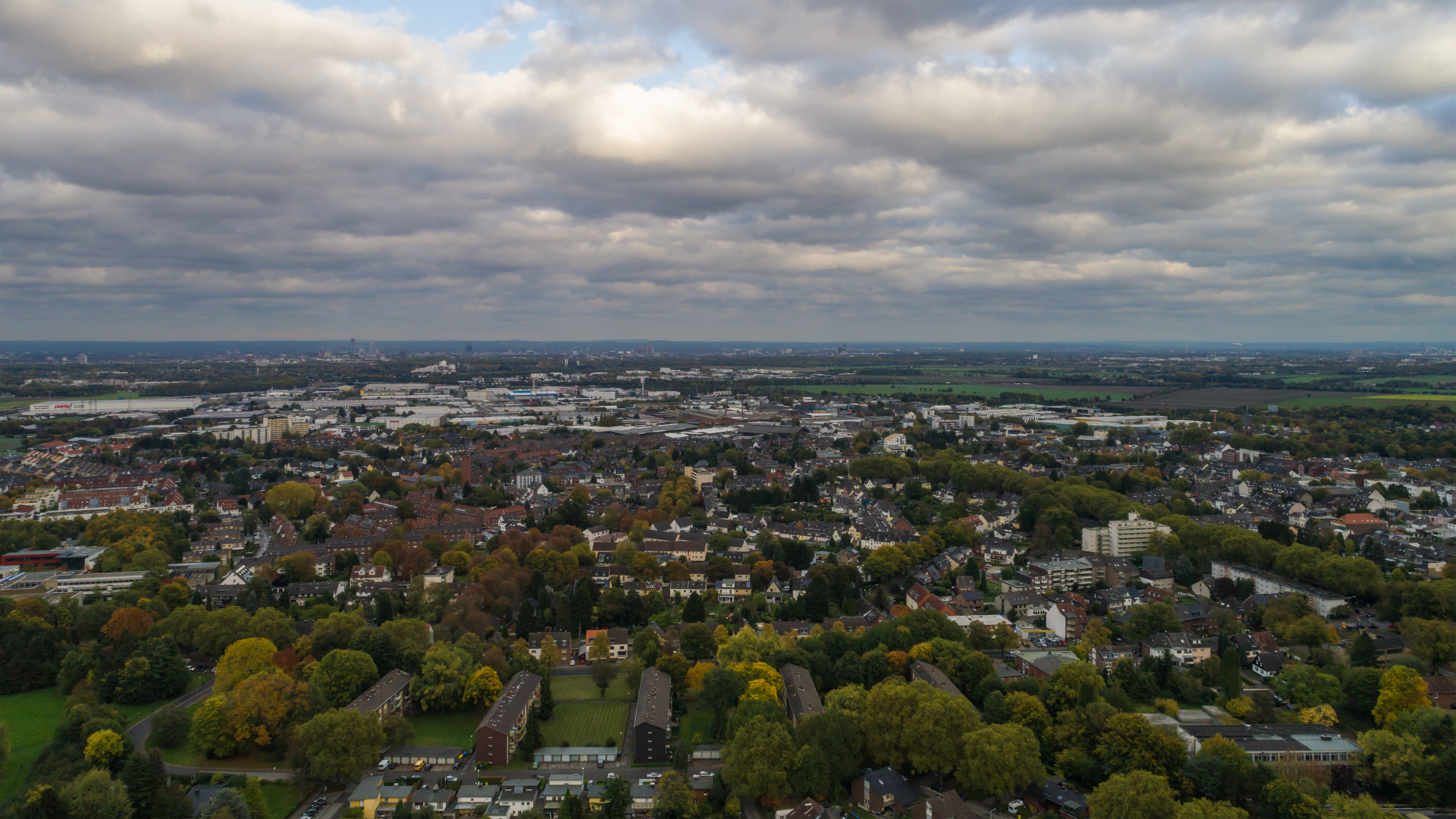 Aerial photo of Frechen, Rhein-Erft-Kreis (Germany)